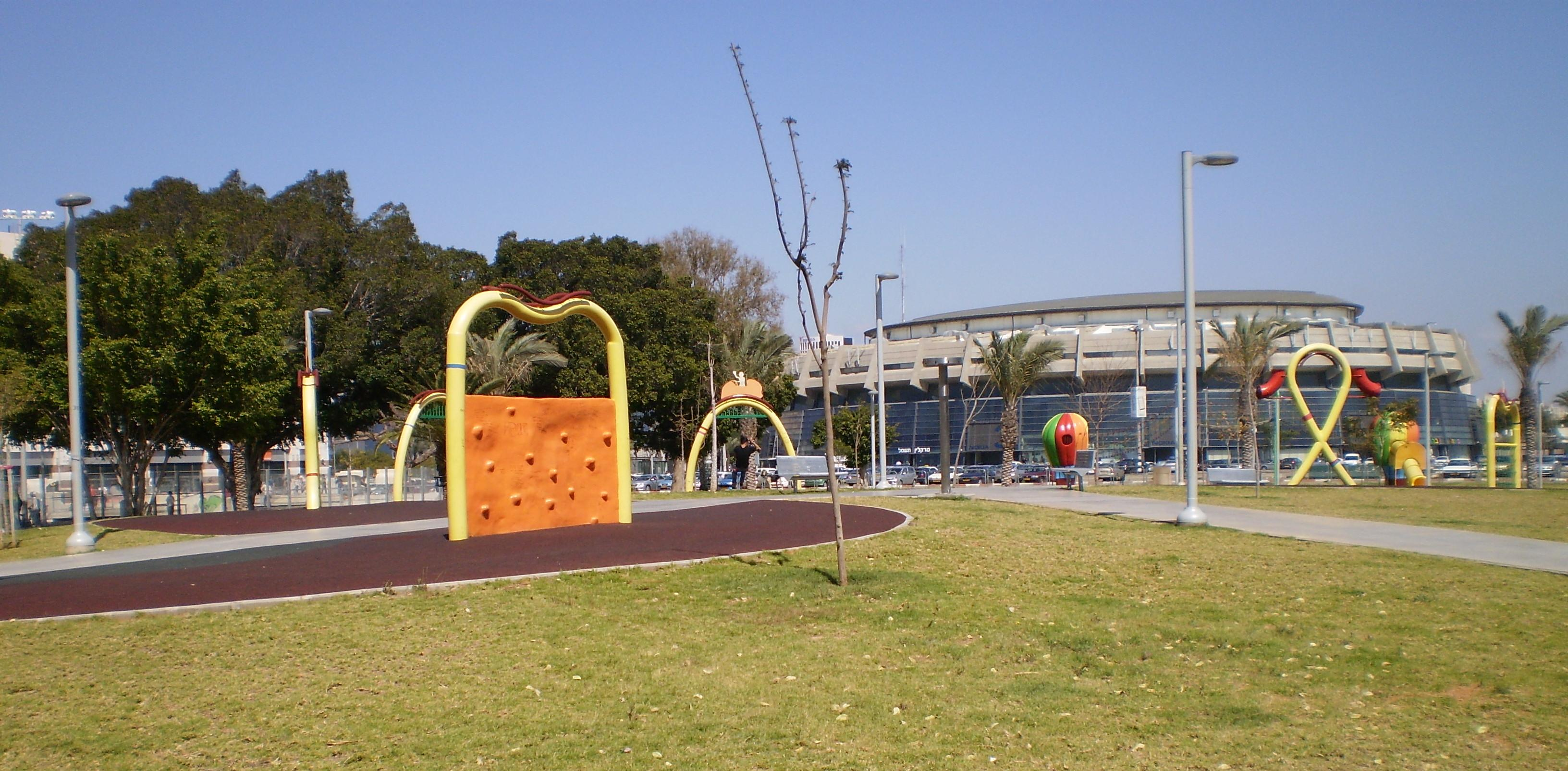 Galit Park, Yad Eliyaho, Tel Aviv